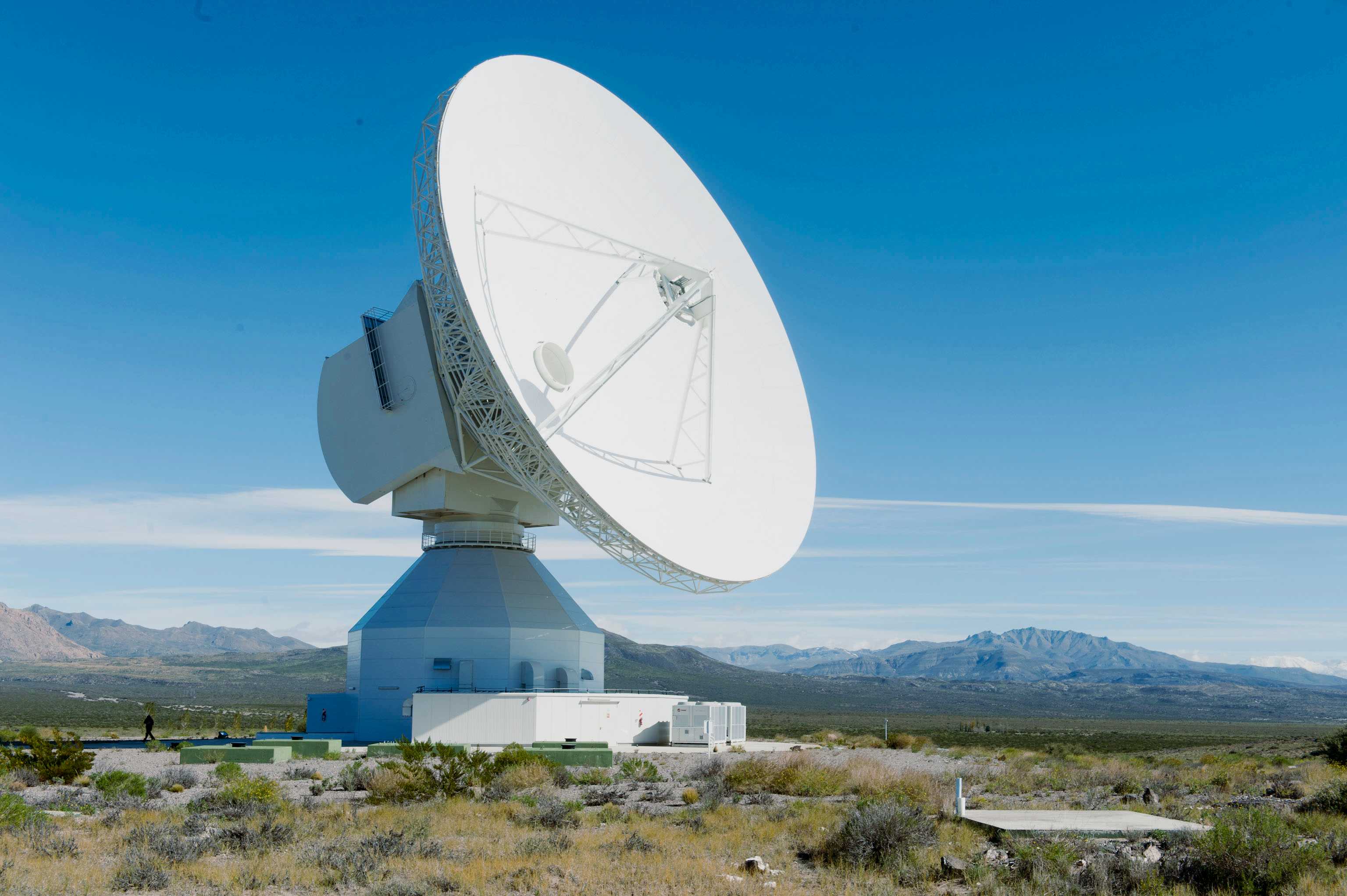 Antenna of the DS3 Malargüe Ground Station.